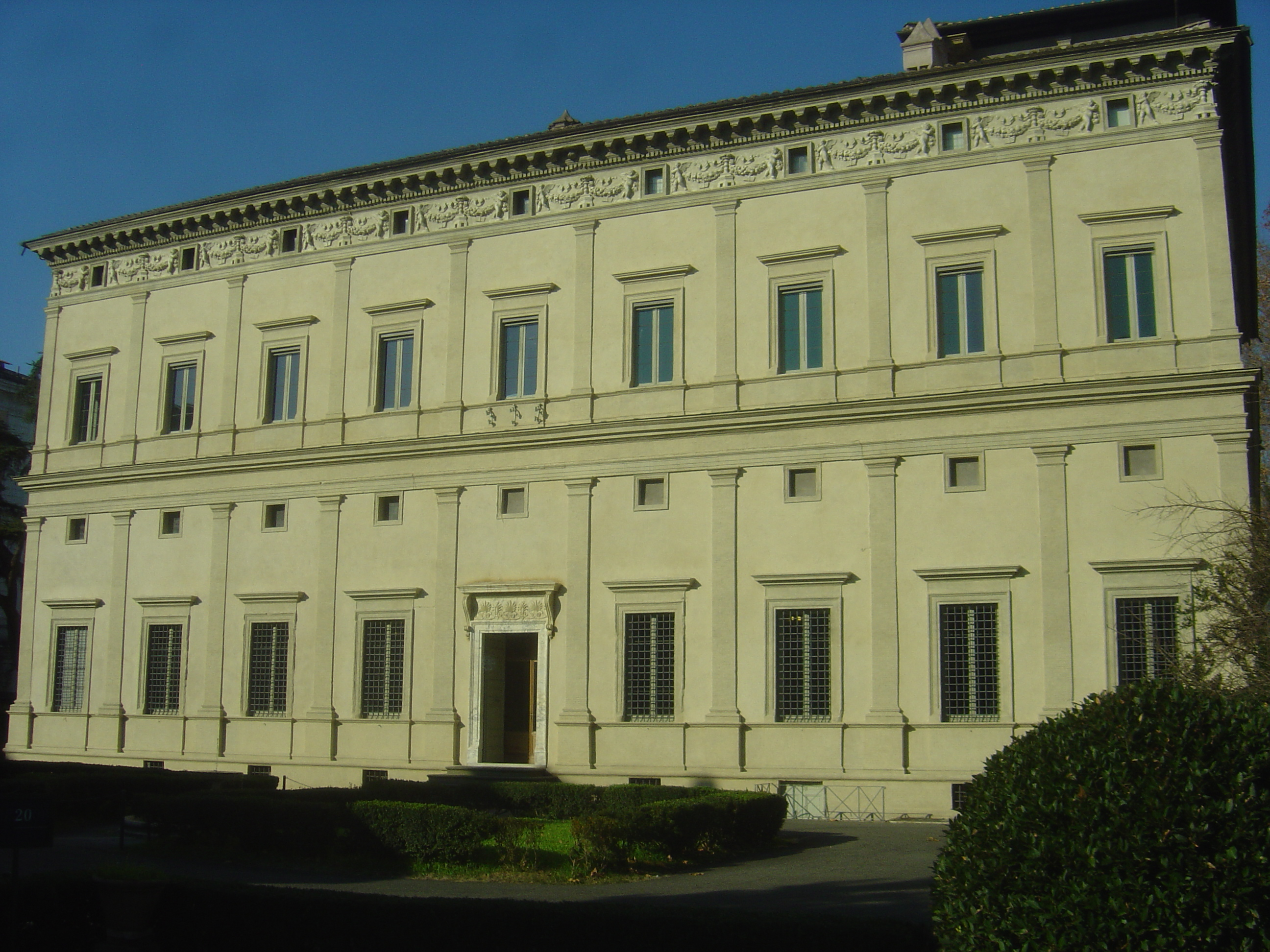 Villa Farnesina, Rome